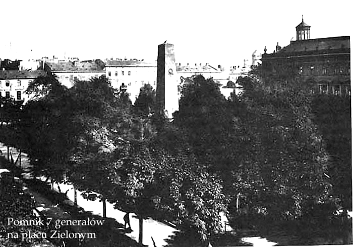 Postcard. Monument of Seven Generals (polish loyalists during November uprising 1830) on Green Square in Warsaw, 1894-1917